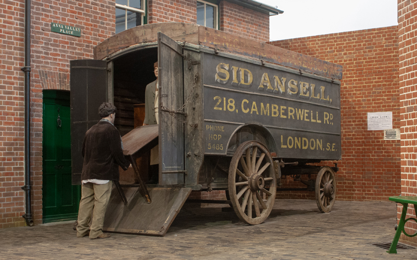 Horse drawn removals van in the Milestones Museum, Basingstoke